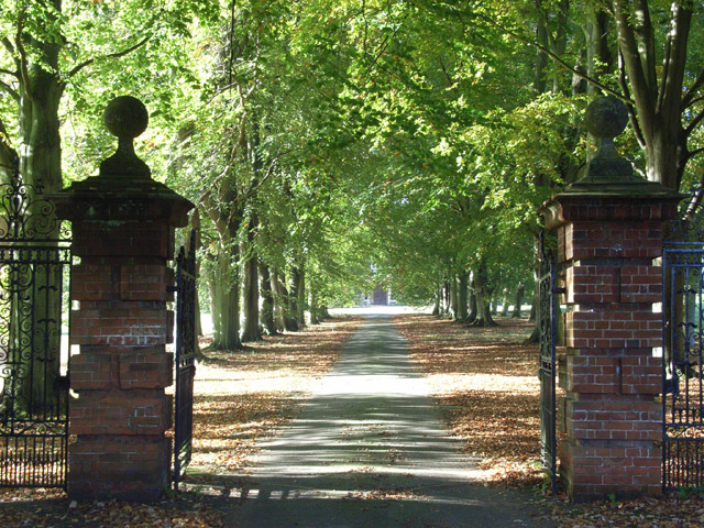 Driveway, Fosbury House An avenue of beeches.